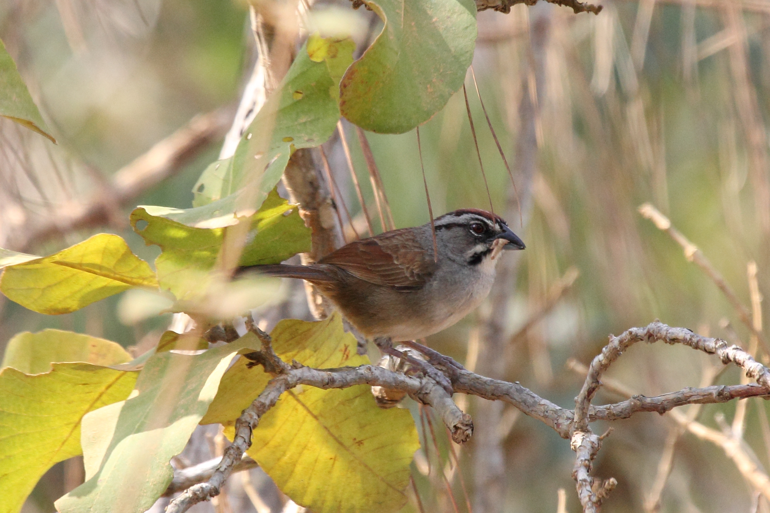 Rusty Sparrow Aimophila rufescens, Belize